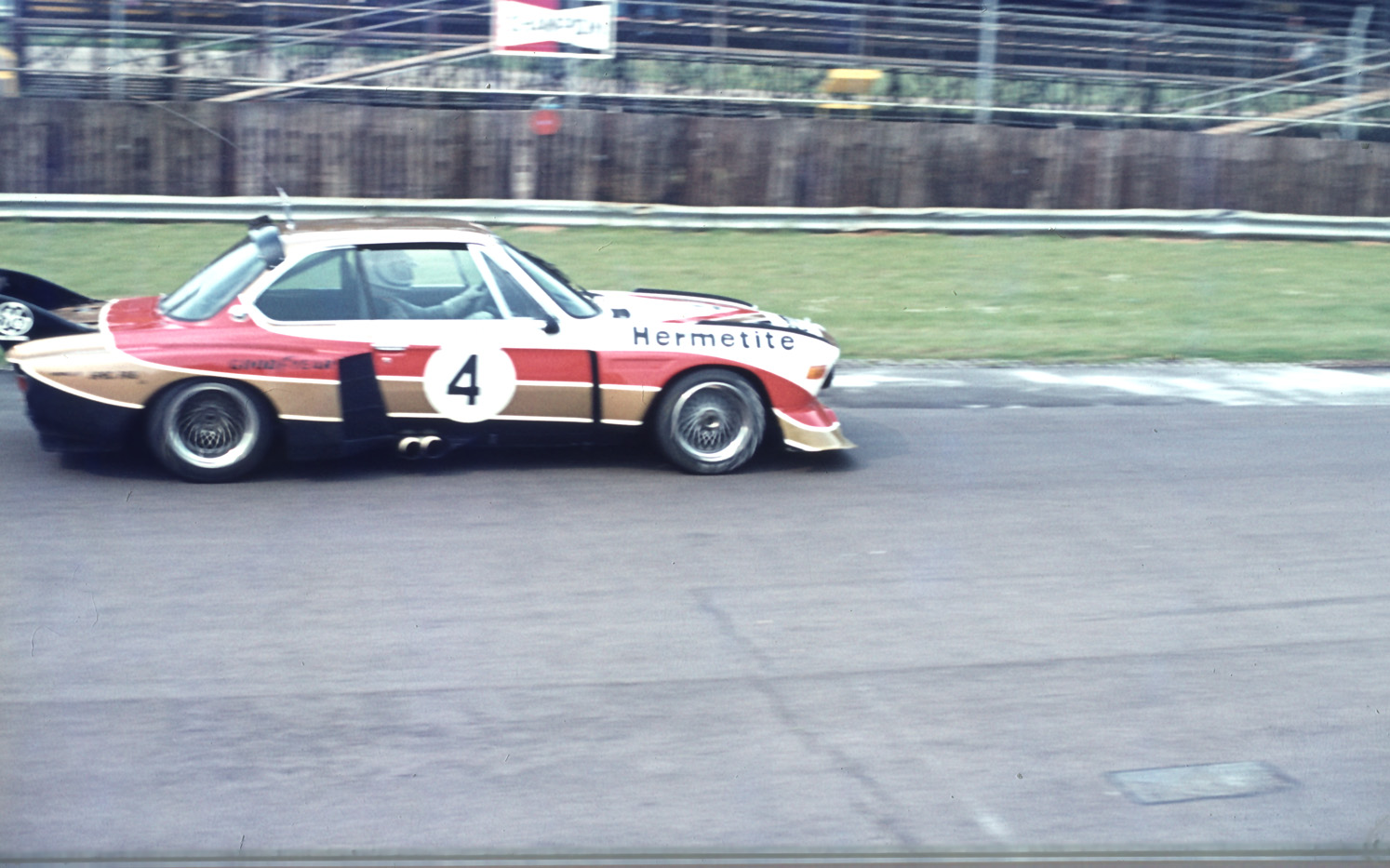 The winning BMW 3.5 CSL of John Fitzpatrick (GB) / Tom Walkinshaw (GB) at the Silverstone 6 Hours in the World Championship for Manufacturers 1976.